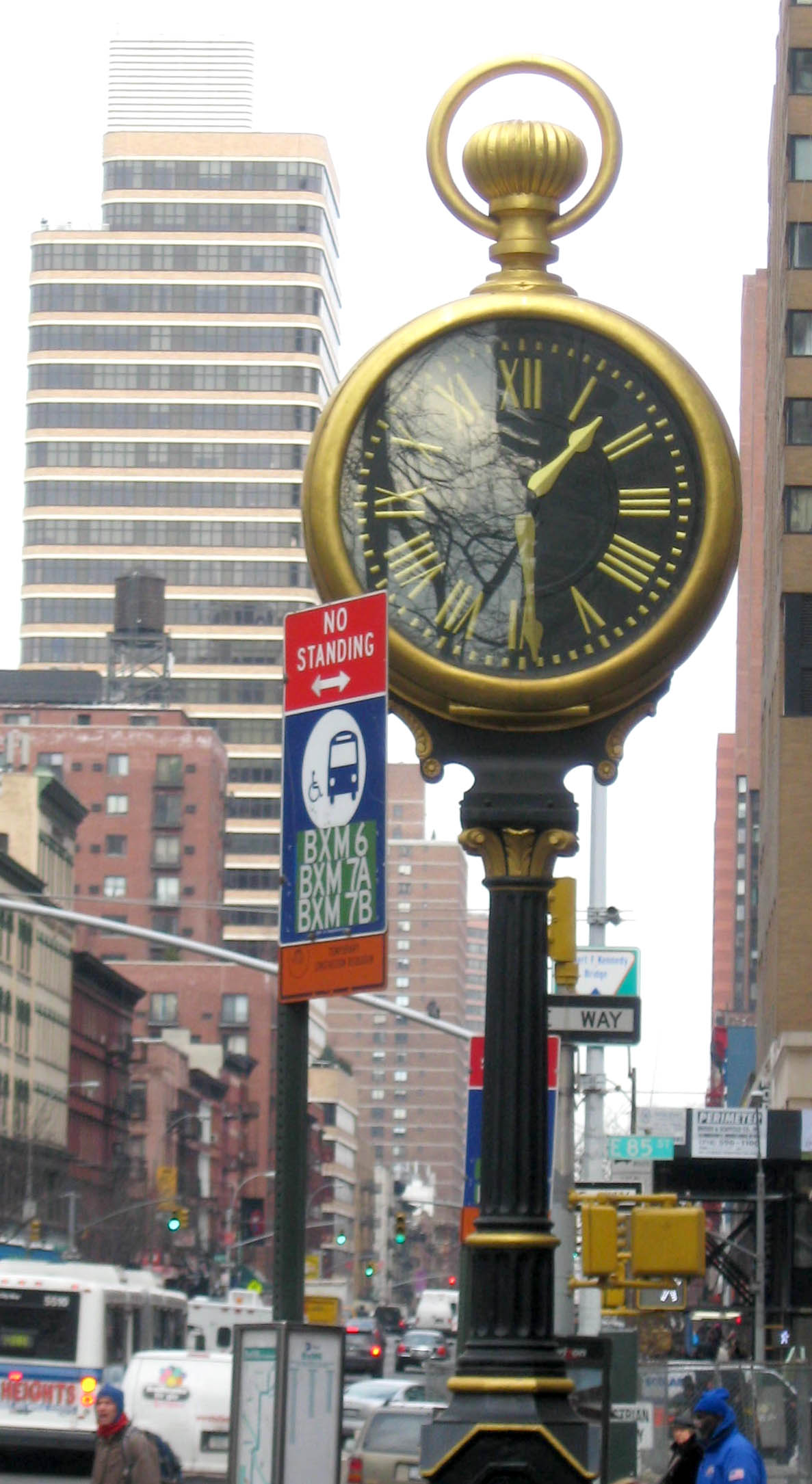 Looking north along 3d Av towards 85th Street and street clock on a cloudy afternoon.